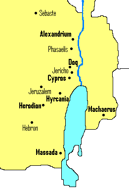 Fortresses built or rebuilt by Herod the Great